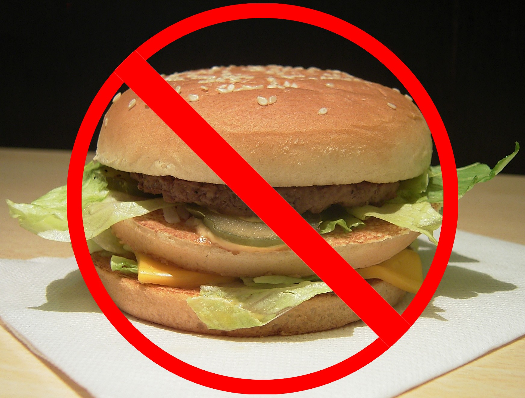 Crossed hamburger as expression of opinion about fast foods